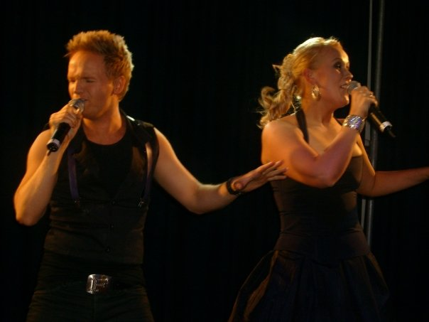 Photo taken at Scala nightclub, London.